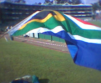 A flag waving in the stands of Wanderers Stadium, Jo'burg